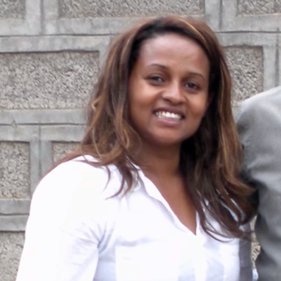 Agnes Edihan Marquis interviews SoleRebels CEO Bethlehem Tilahun Alemu for NdaniTV on 19 June 2017